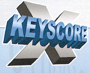 Xkeyscore logo.